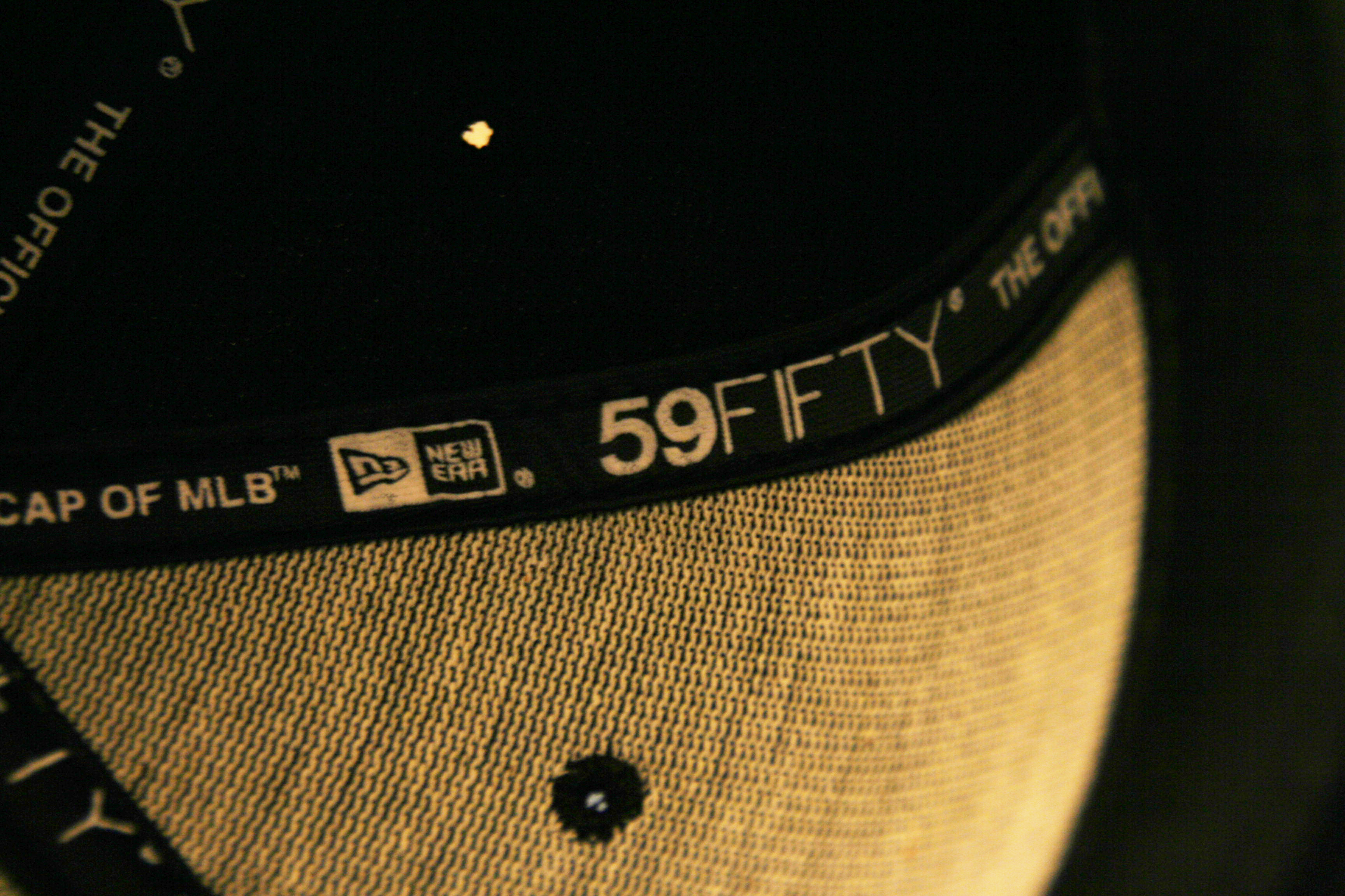 The inside of an official 59Fifty Cap.